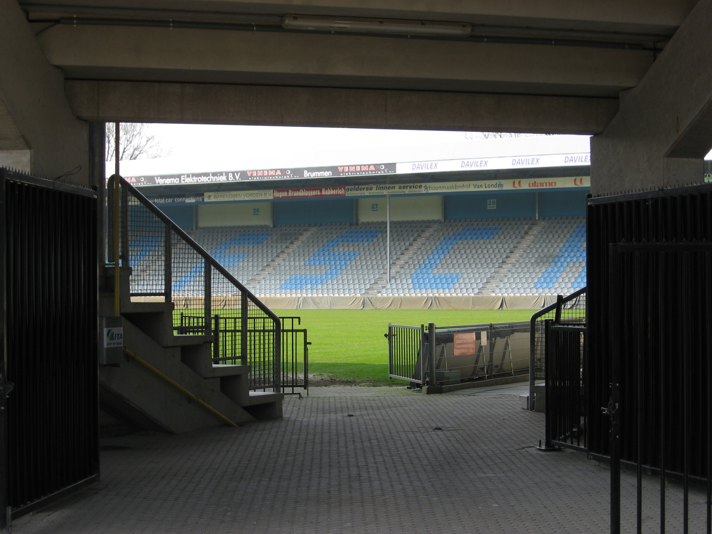 Stadion De Vijverberg in Doetinchem (The Netherlands).